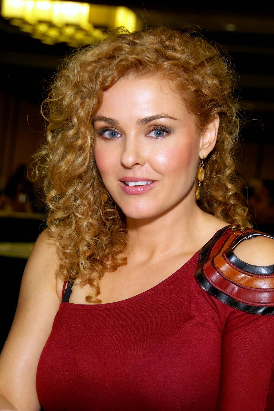 Corinna Harney, Los Angeles, CA on October 1, 2011 - Photo by Glenn Francis of